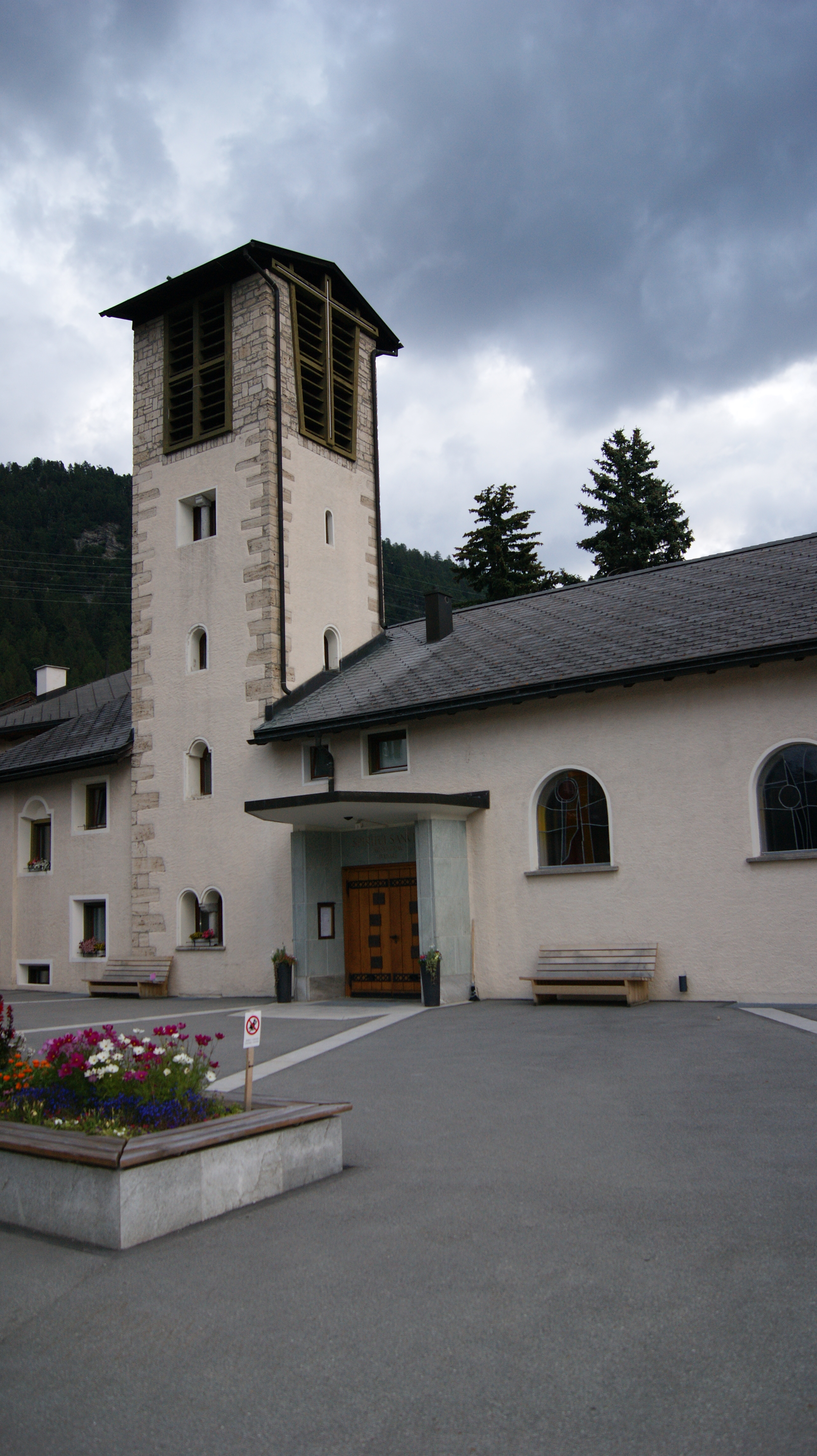 Church of San Spiert in Pontresina, Grisons, Switzerland.